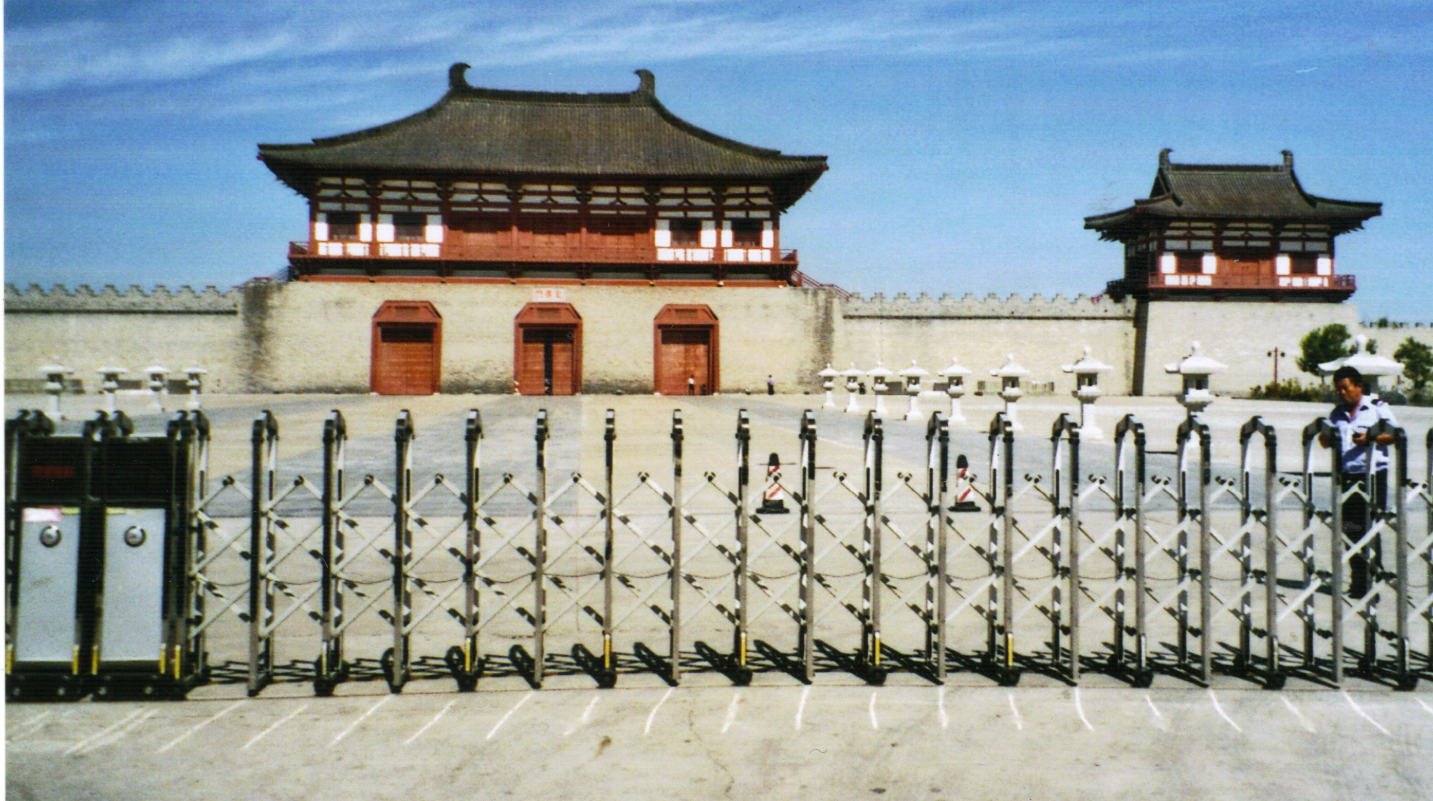 Reconstruction of city gate, Luoyang, China